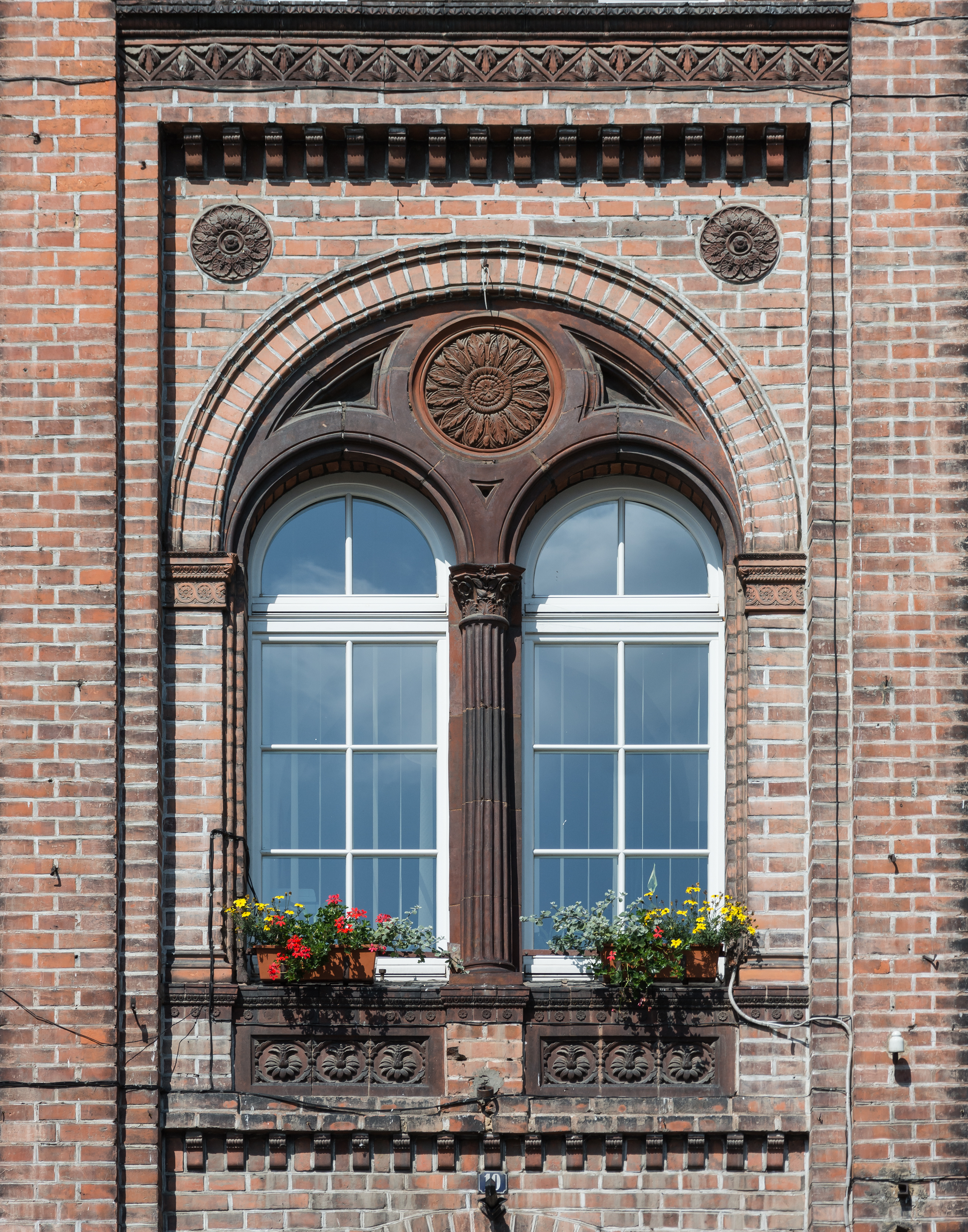 10 Market Square in Niemcza